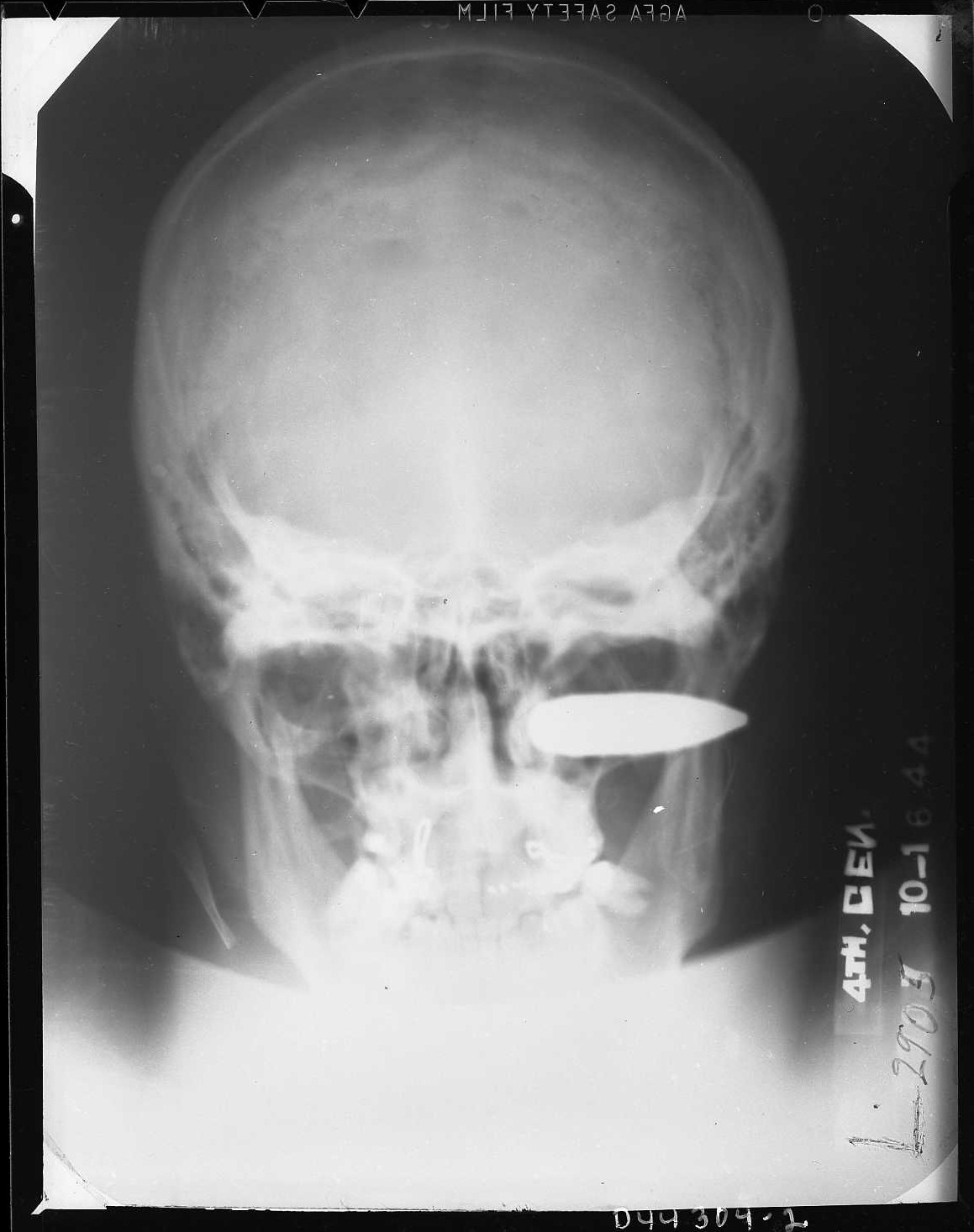 0.50 caliber bullet wound of the face. Injured while heating 0.50 caliber incendiary m.g. [?] bullet with a blowtorch while manufacturing an ash tray. Entrance just below right eyebrow. 11 days after injury, patient began hemorrhaging; blood flow so profuse it was impossible to carry out emergency procedures. Patient deceaded. World War 2. 4th General Hospital